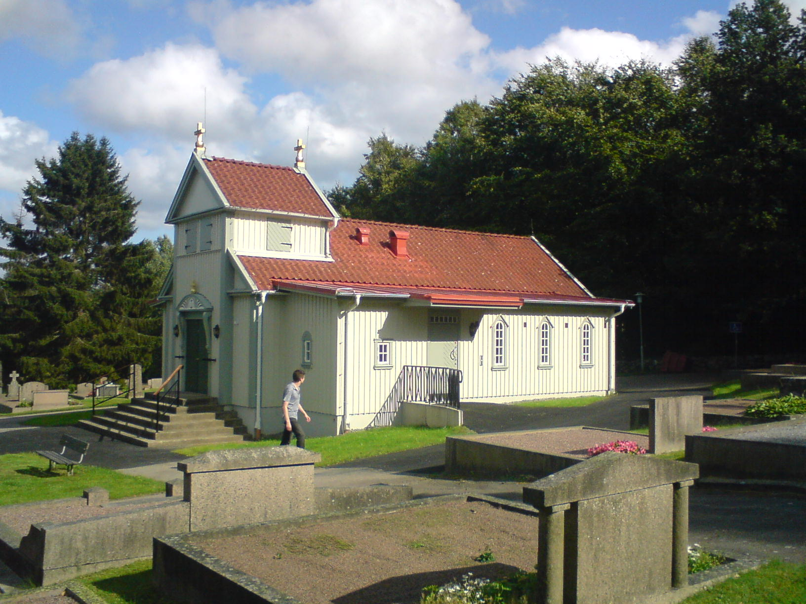 Parish church of Rödbo parish from the north. Rödbo församlingskyrka från norr.